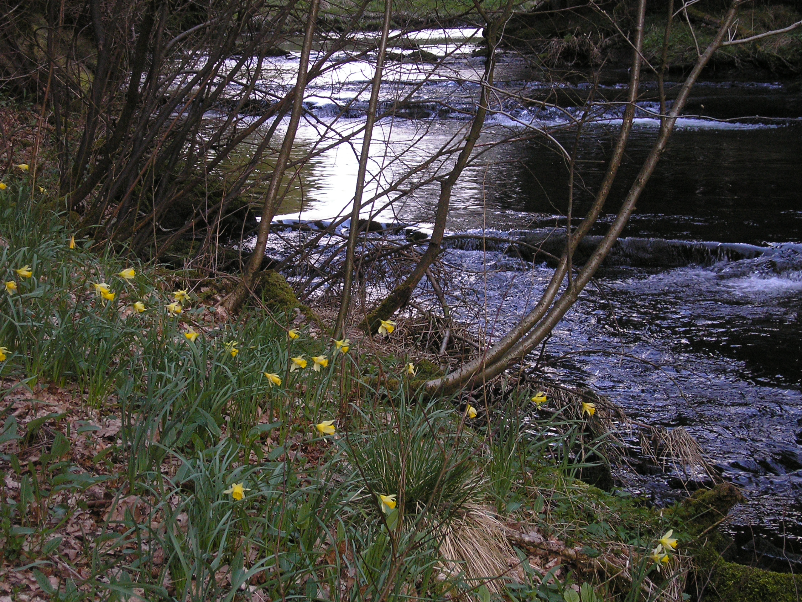 Warche valley, EastBelgium